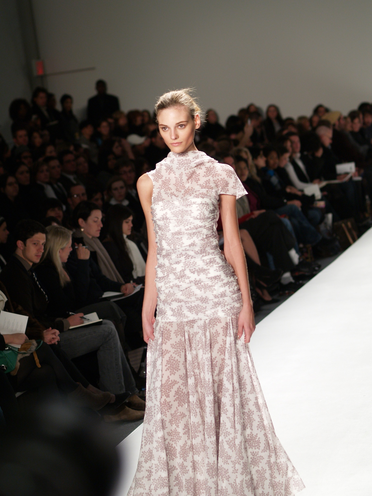 Fabiana Semprebom modeling for Michon Schur, Fall 2006 show, New York Fashion Week.